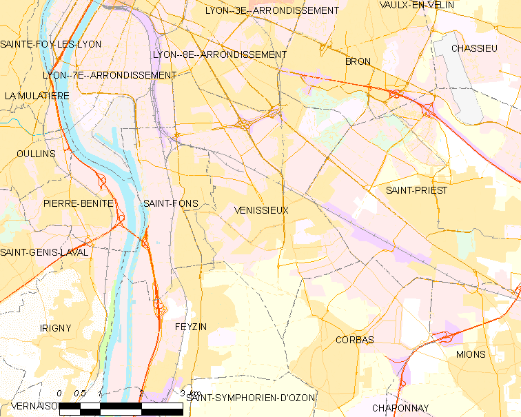 Map of French municipality